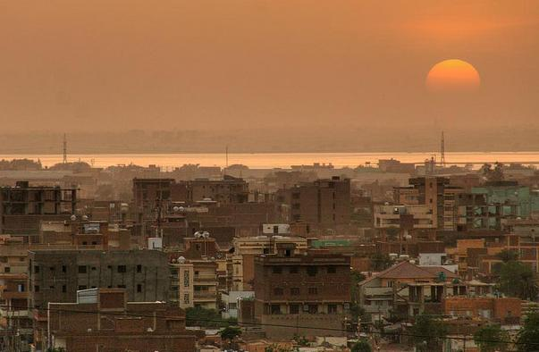 Sunset in Khartoum, Sudan